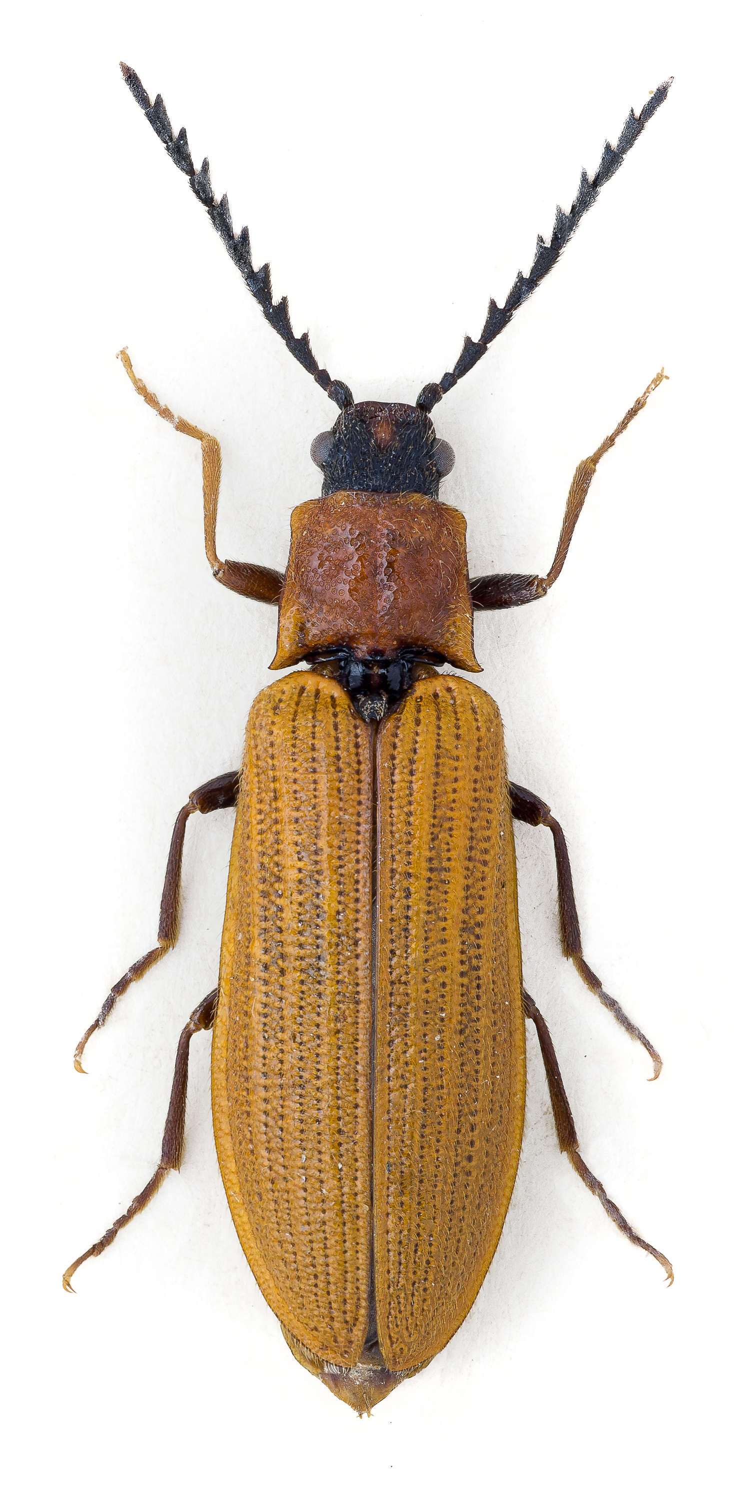 Denticollis rubens, female